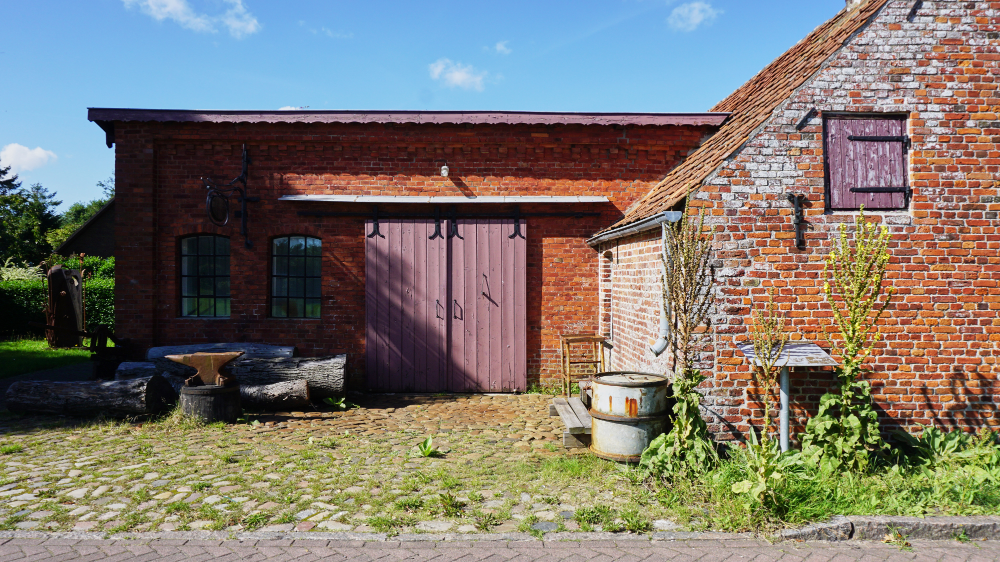 x-default